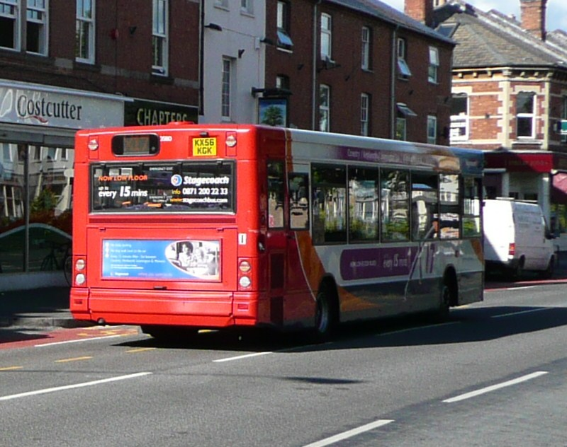 Bus 35180 (KX56 KGK), owned by Stagecoach in Warwickshire in Warwick.